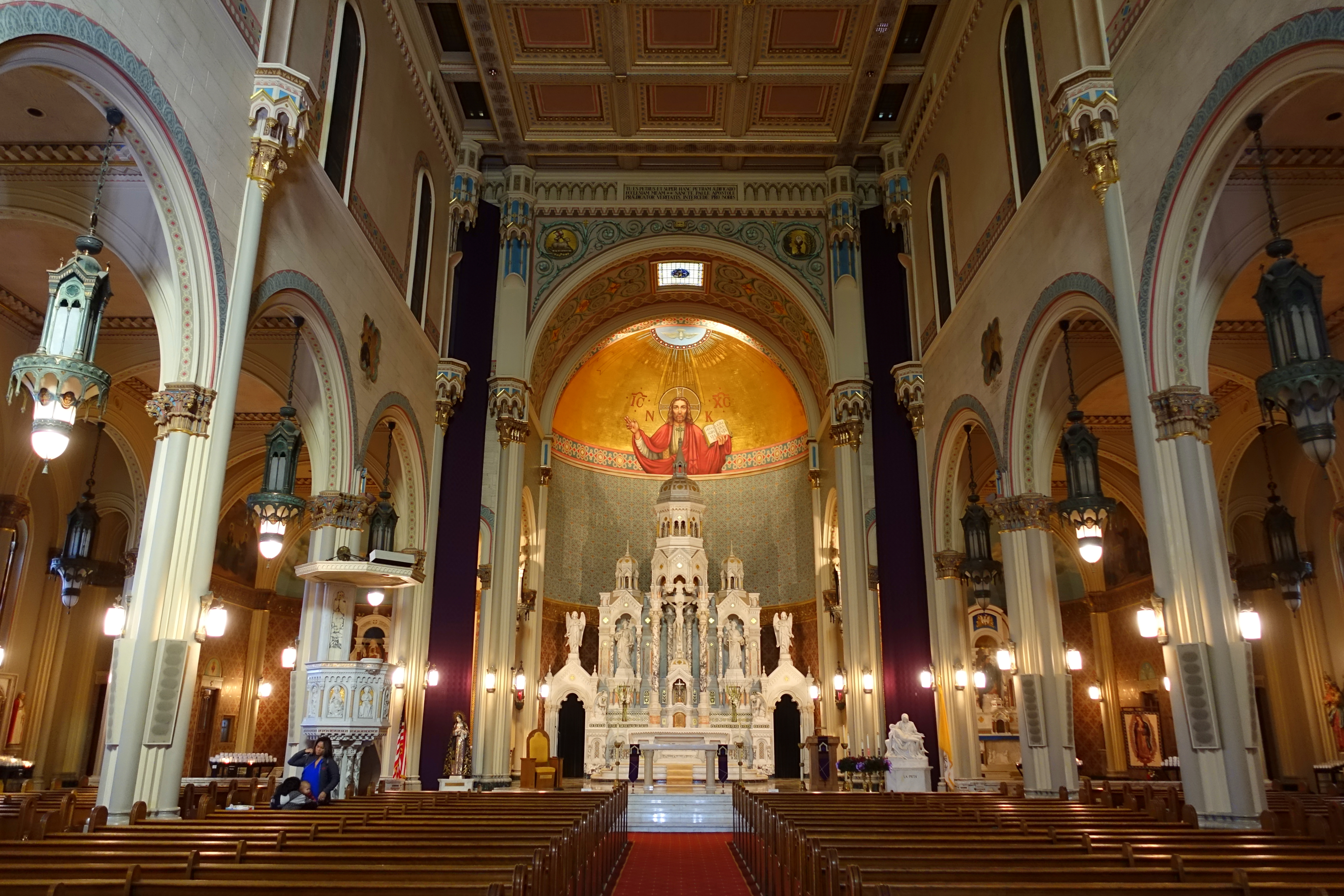 Saints Peter and Paul Catholic Church - 666 Filbert Street, San Francisco, California, USA.